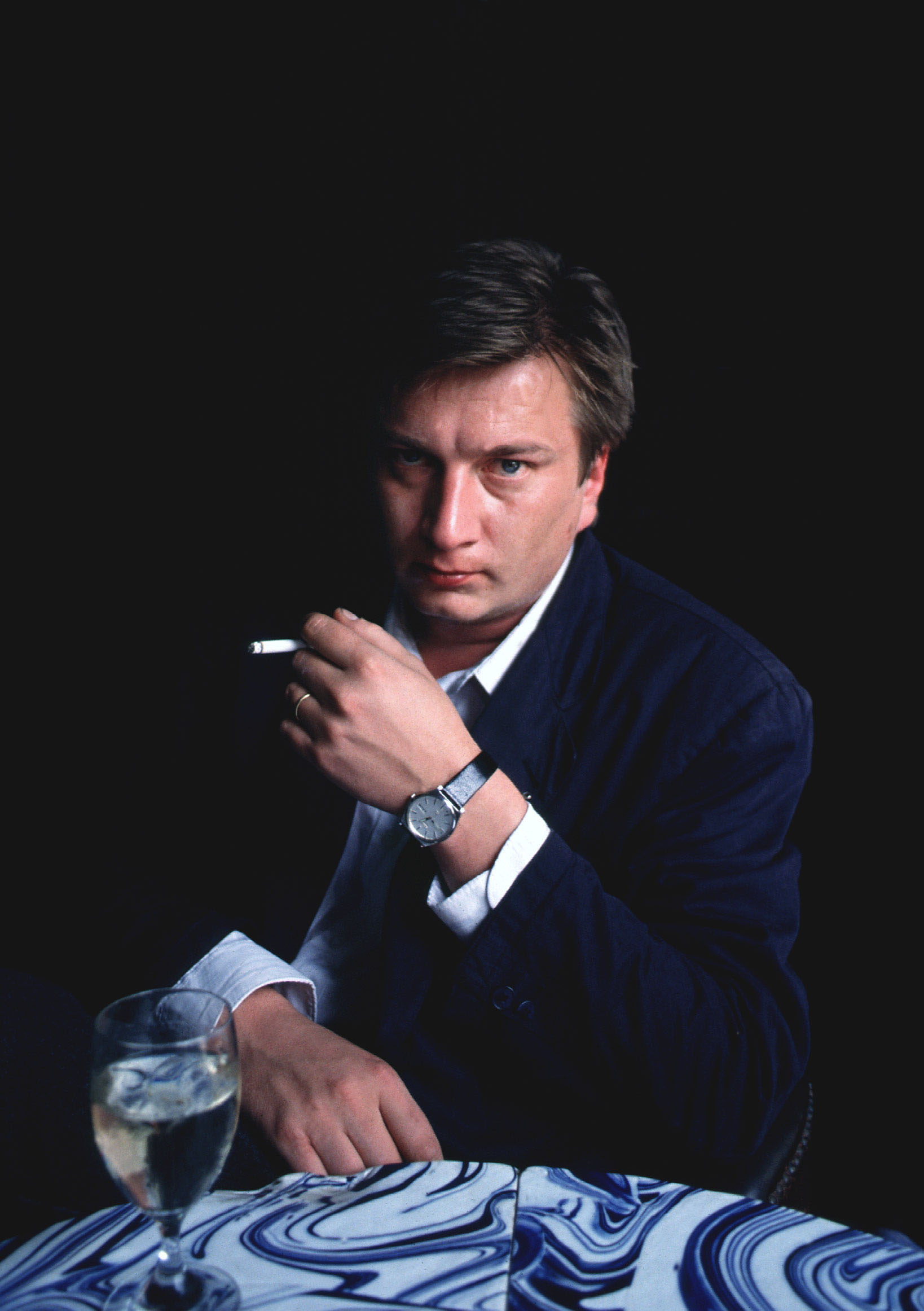 Aki Kaurismäki